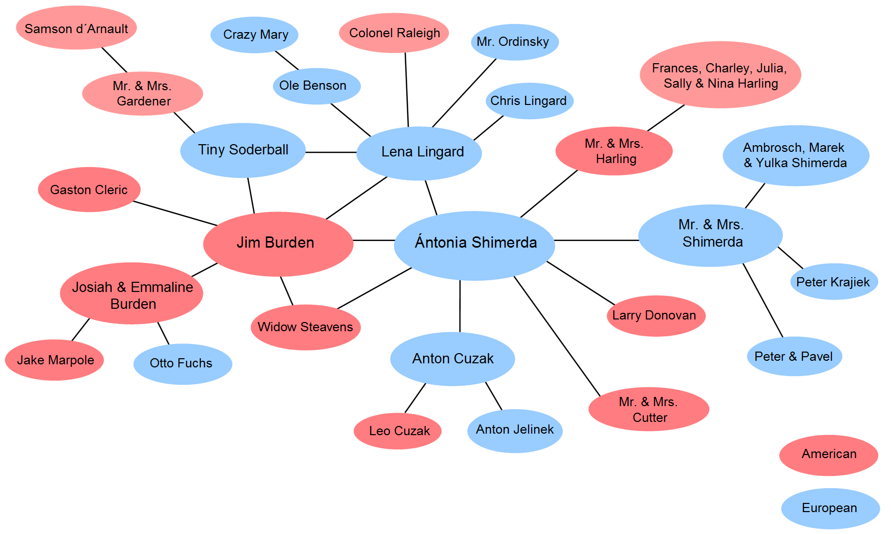 Designed as a social network, this picture shows a detailed overview of the characters found in Willa Cather's novel 'My Ántonia'.